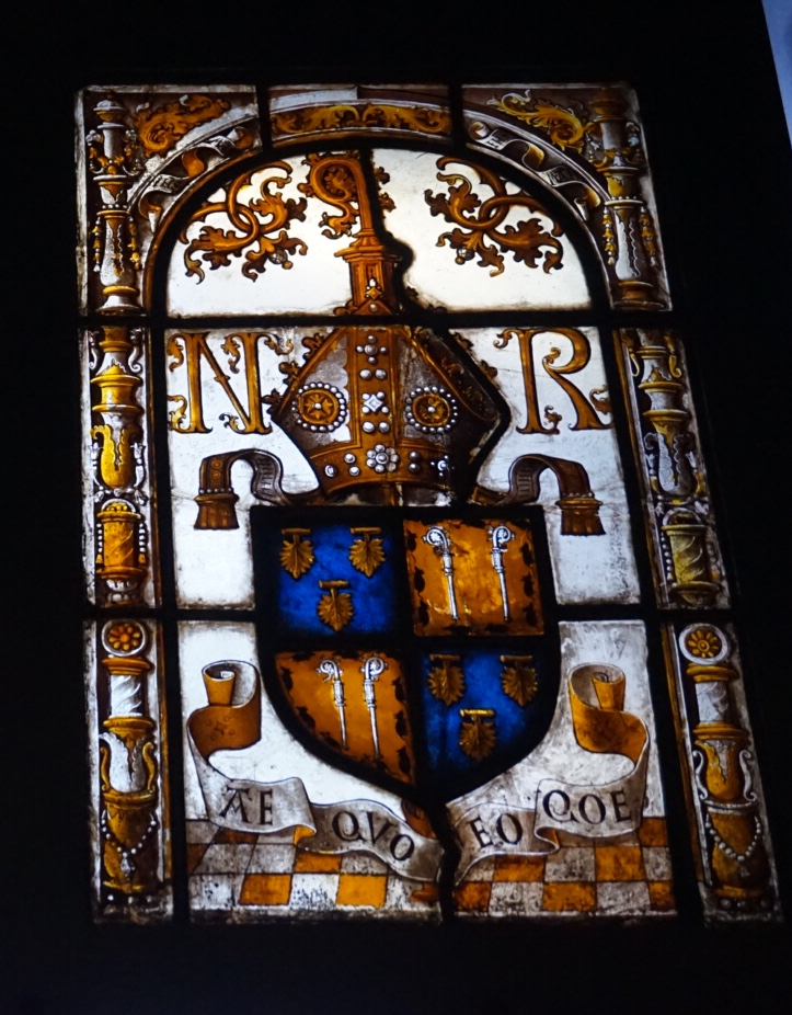 Arms of Nicolaas Ruterius, bishop of Arras. V&A Museum no. 2633-1855. Description